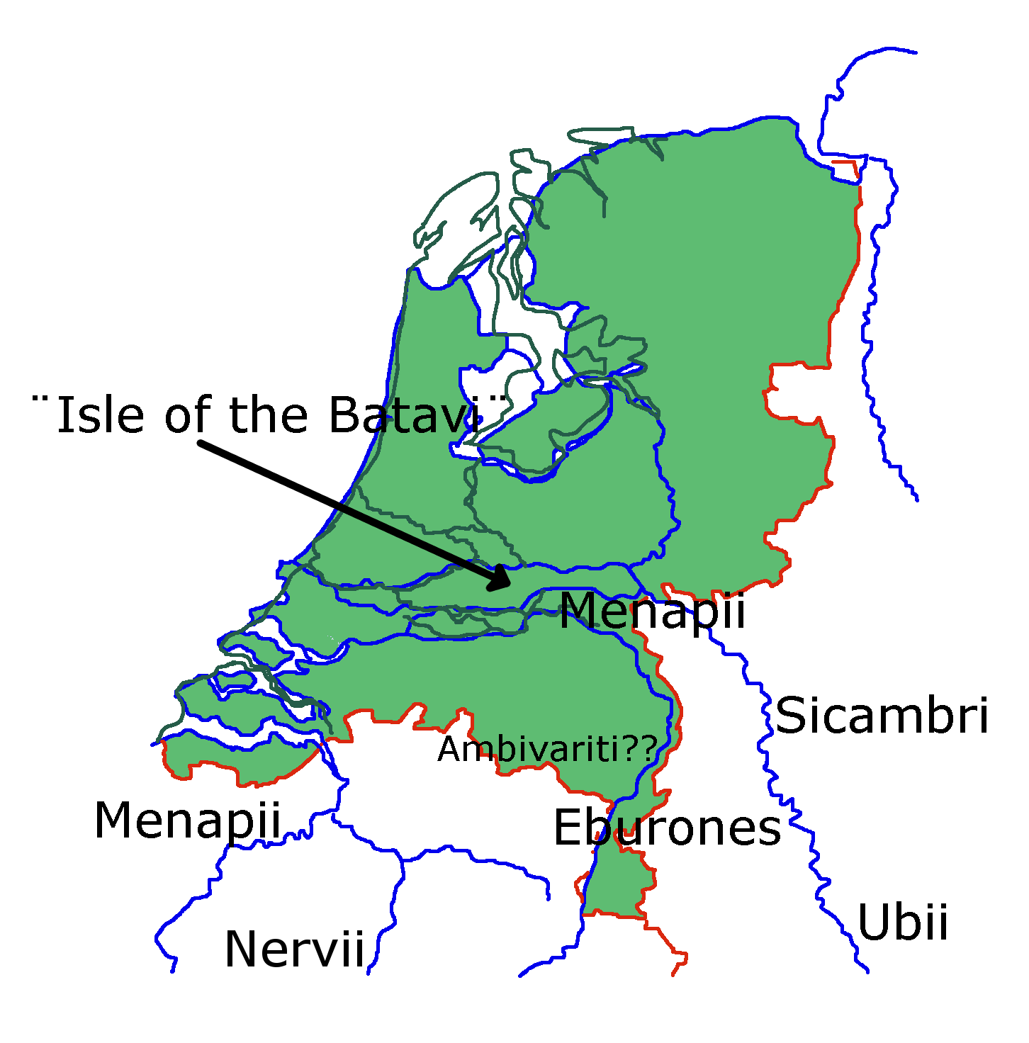 A rough map showing tribes mentioned by Caesar in his account of the Gallic wars